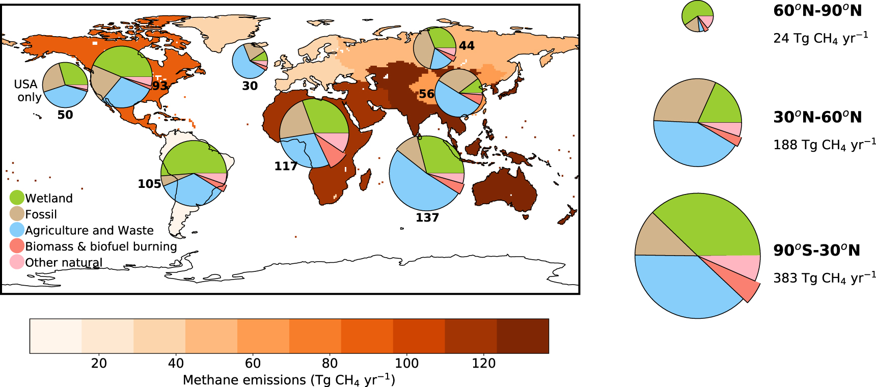 Methane emissions (Tg CH4 yr−1) for 2017 by region, source category, and latitude. The mean estimates shown arise from the ensemble of top-down inversion models described in Saunois et al (2020).